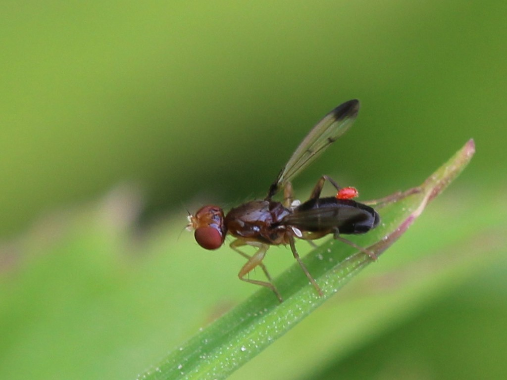 Geomyza pilosula. Identified by Bey-Bienko keybook 'USSR European part Diptera keybook, Vol. 5, Part 2, Brachycera': "Arista shortly pubescent, without long hairs. Thorax yellow red; pronotum behind or almost fully brown. Legs are yellow. Wings with apical dark spot. Abdomen black; female abdomen with yellow apex. 2,5 mm long."